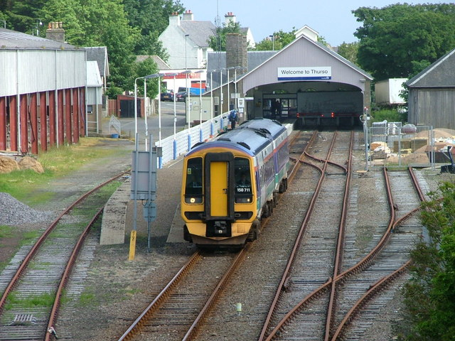 Thurso station The most northerly point on the British railway network